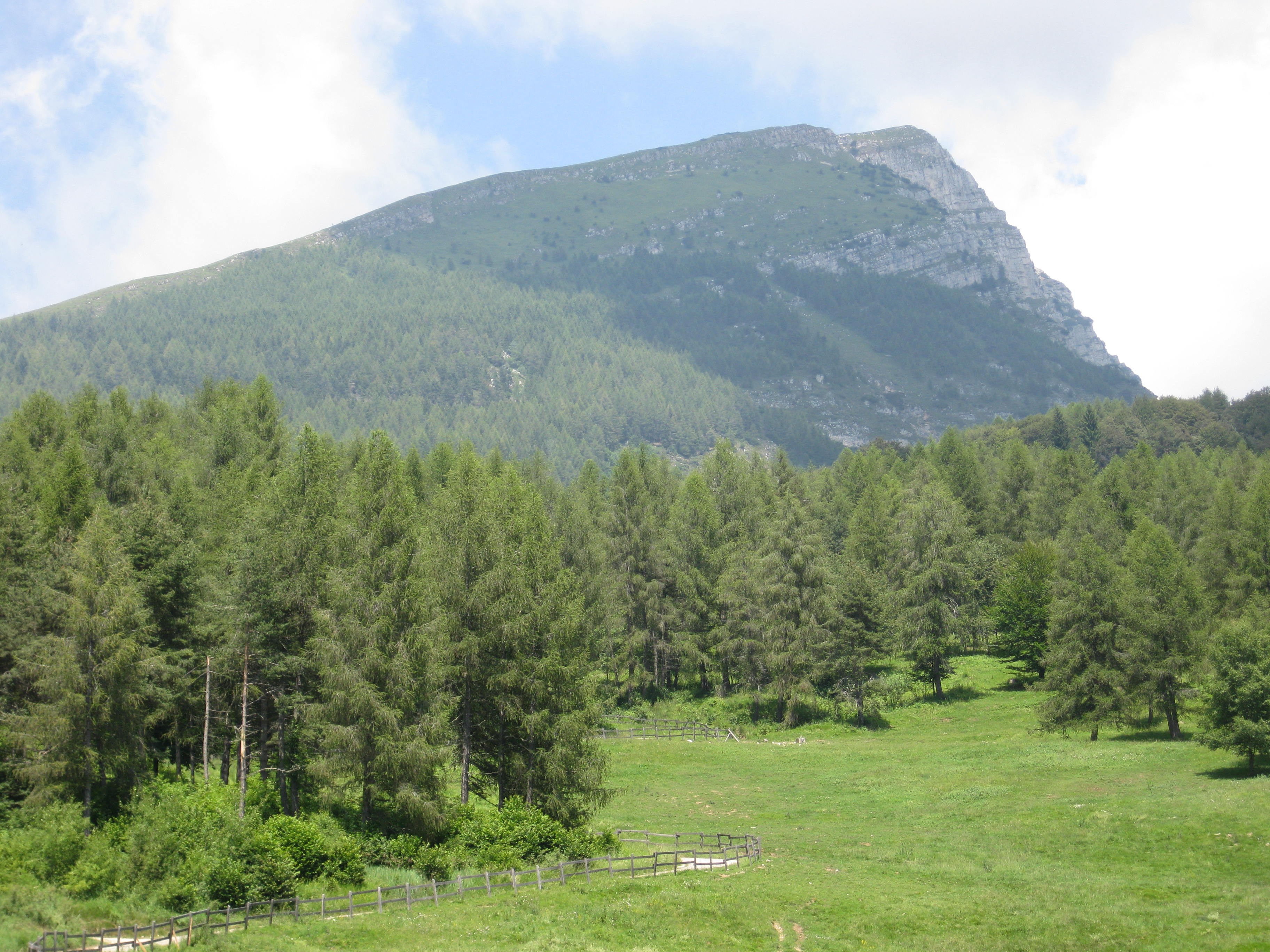 Monte Stivo (2059 m), mountain near the garda lake close to the cities of Arco und Riva del Garda in Italy. View from the road between Passo S. Barbara and alp le Prese.